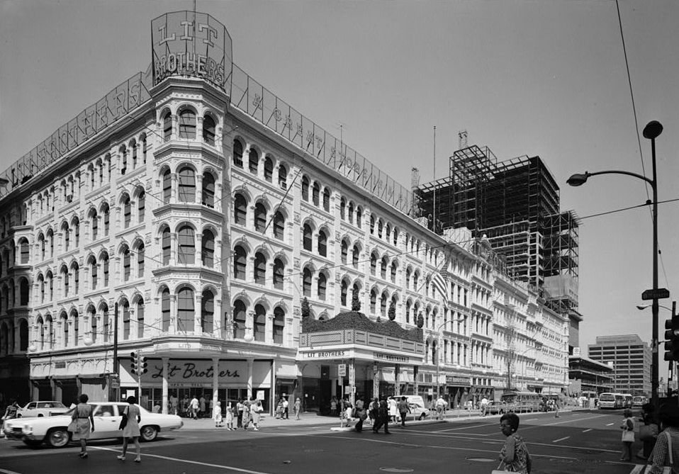 Lit Brothers Department Store, 701-39 Market Street (block bounded by Market, 7th, Filbert, 8th Streets) Philadelphia, Pennsylvania (33 buildings built between 1859 and 1918, unified by a brick & iron facade).